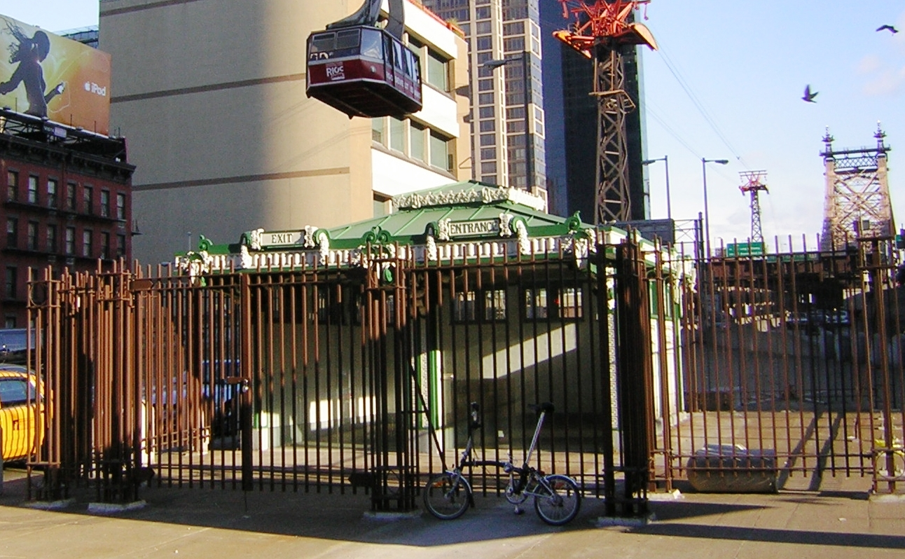 Entry kiosk formerly covering a nearby stairway to underground trolley station of Queensboro Bridge.